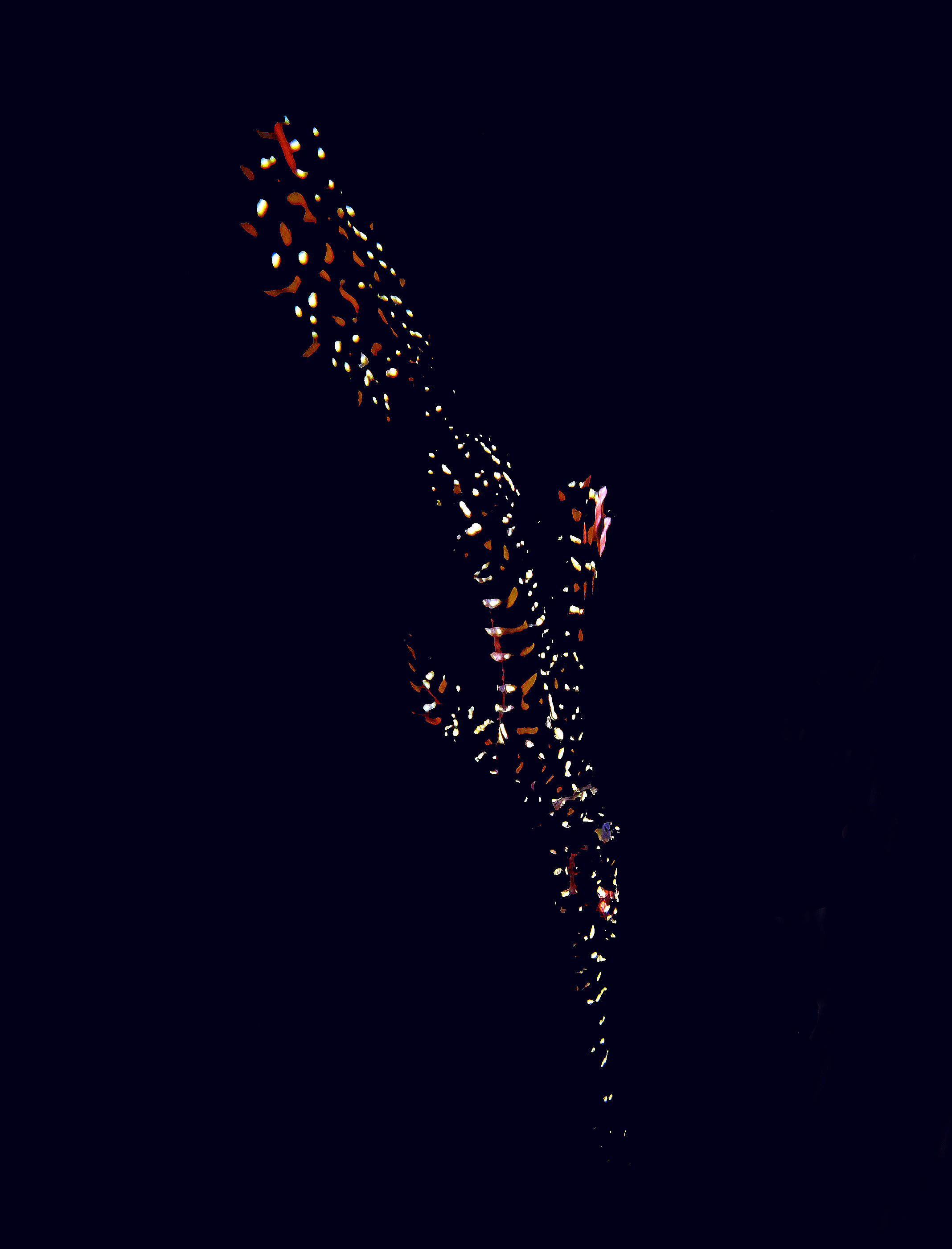 Ornate ghost pipefish, Solenostomus paradoxus. Taken at Lembeh straits, North Sulawesi, Indonesia.